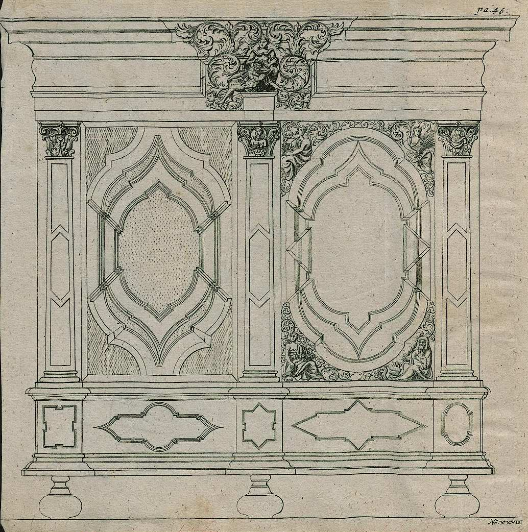 Hamburger Schapp. Kupferstich aus J. Chr. Senckeisen: Architektur- und Seulen-Buch, Leipzig 1704, S. 46